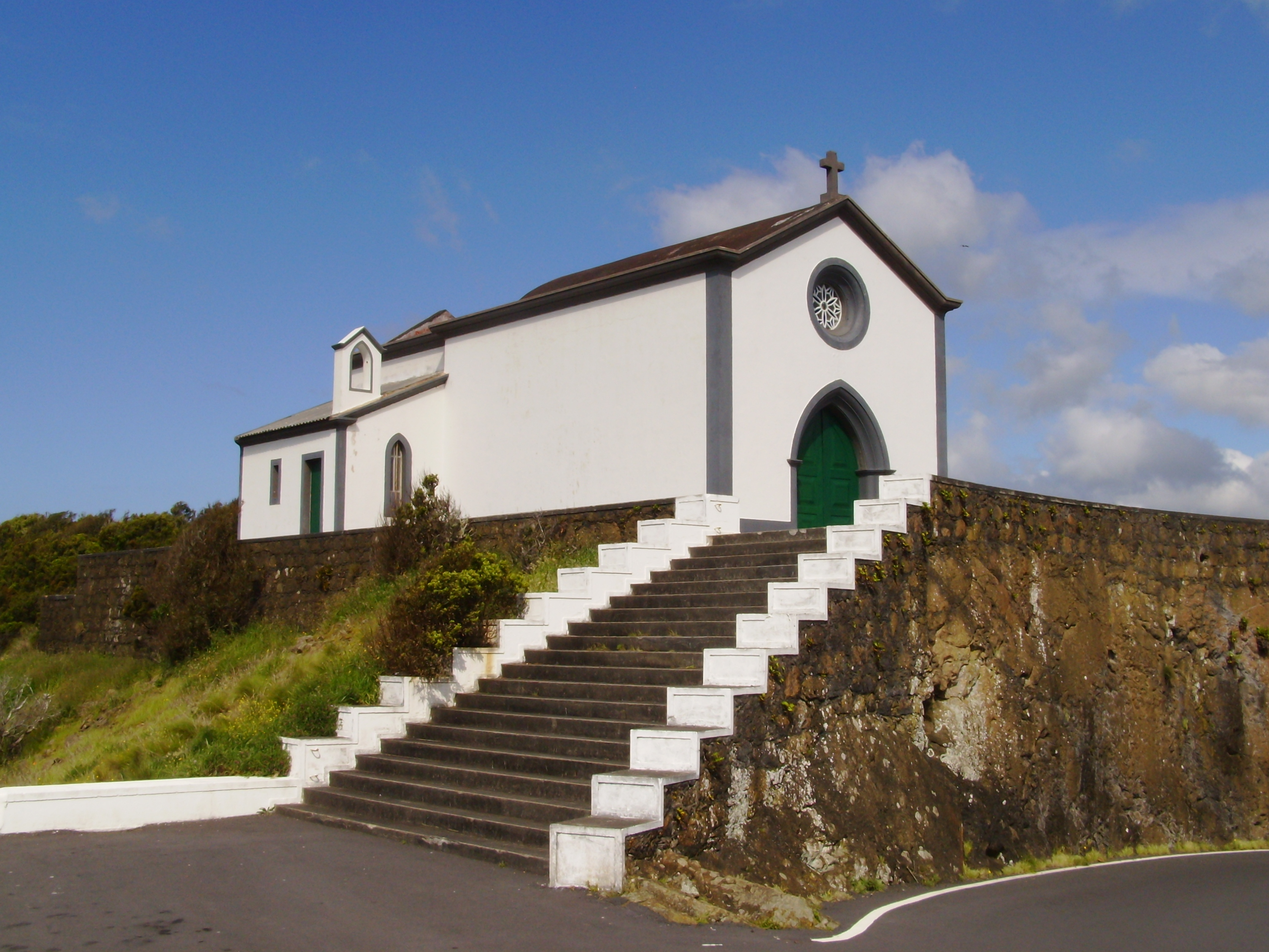 The Chapel of Nossa Senhora da Guia, located on Monte da Guia, Angústias, Horta, Faial (Azores), Portugal